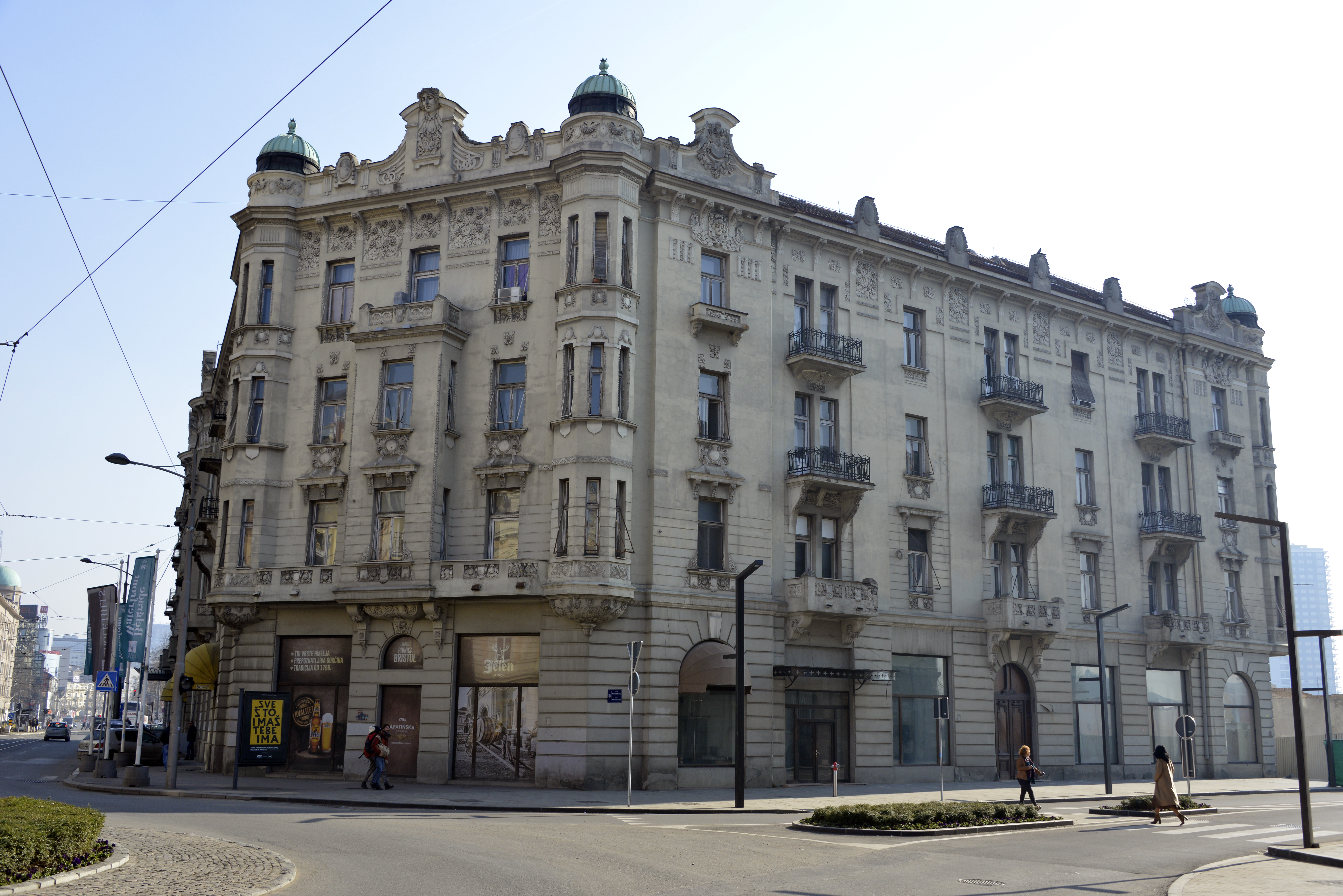 Hotel Bristol, view from the Belgrade Cooperative building